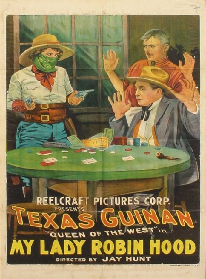 movie poster for My Lady Robin Hood (not based quality, replace when possible)